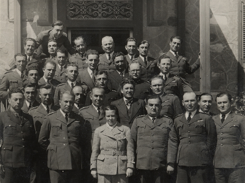 Sabiha Gökçen and her colleagues